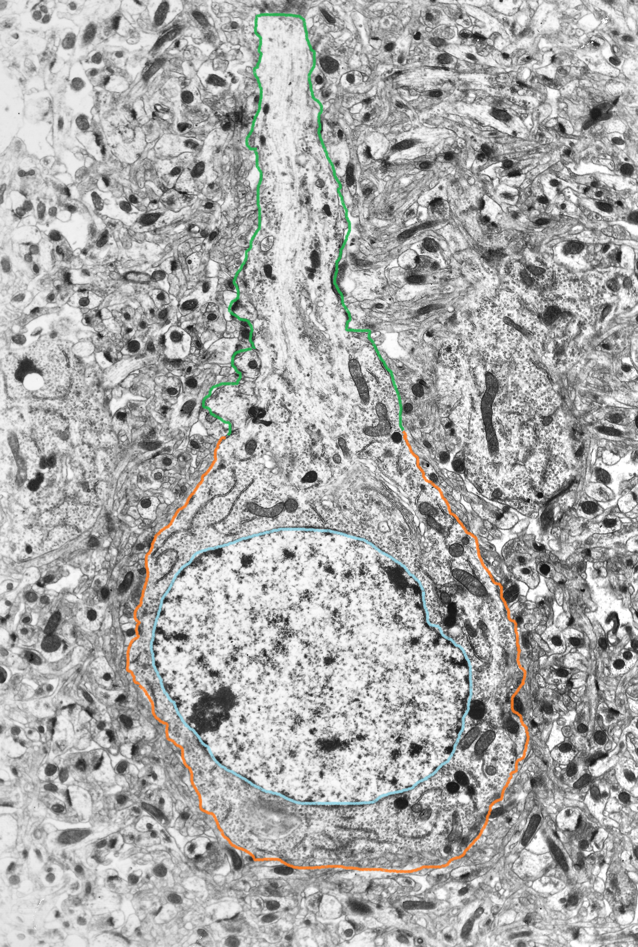 The nerve cell (neuron) consists of the nerve cell body (containing the nucleus surrounded by the perikaryon) and its processes - usually multiple dendrites and one axon (not visible in this figure). The surface of the perikaryon and processes is covered by a plasma membrane. The interior is filled with cytoplasm and organelles. Scale = 5 µm. (Mouse, neocortex).